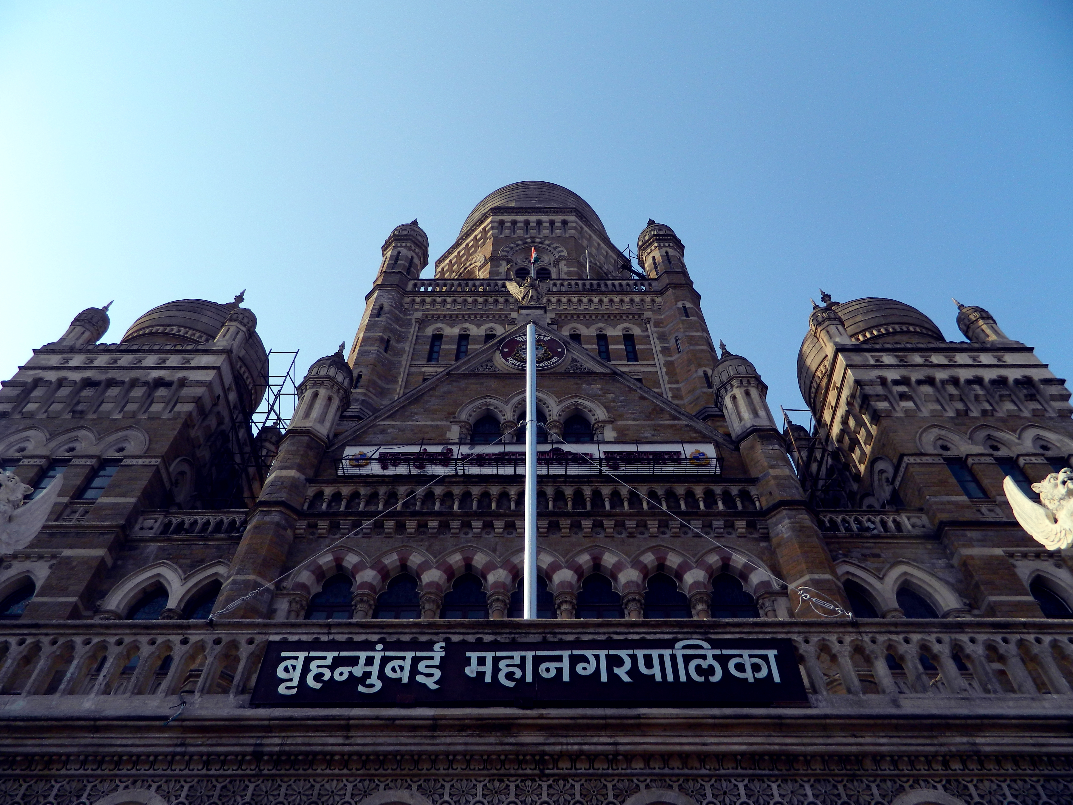 It is the main BMC office of Mumbai which is located right opposite CST station!